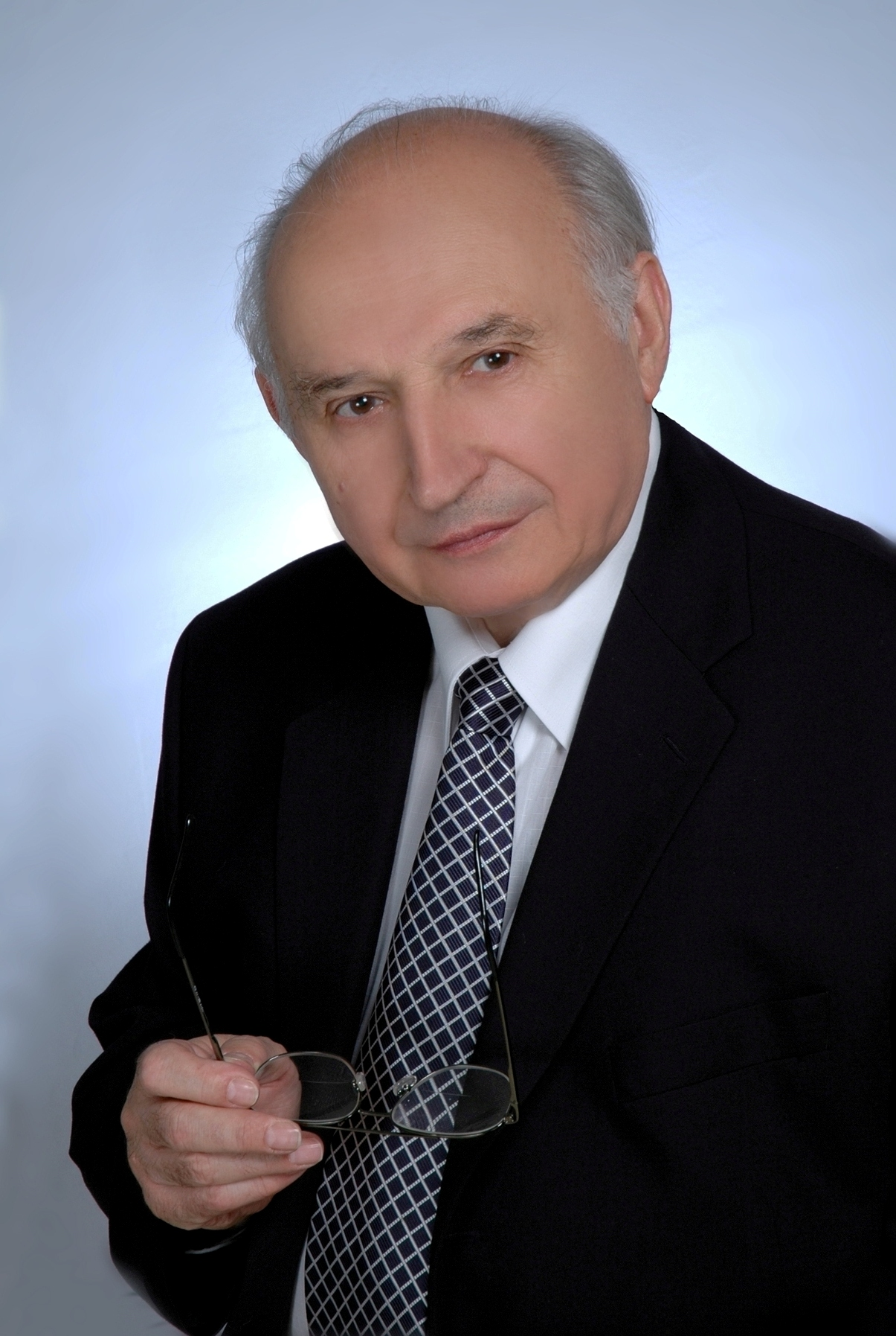 Mr. Imre Csizmadia (1910-1984) Hungarian physician.